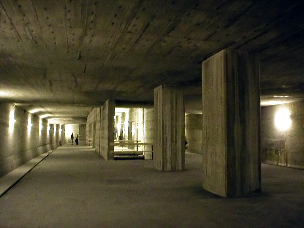 Subway station Innsbrucker Platz, prepared for the never built U10